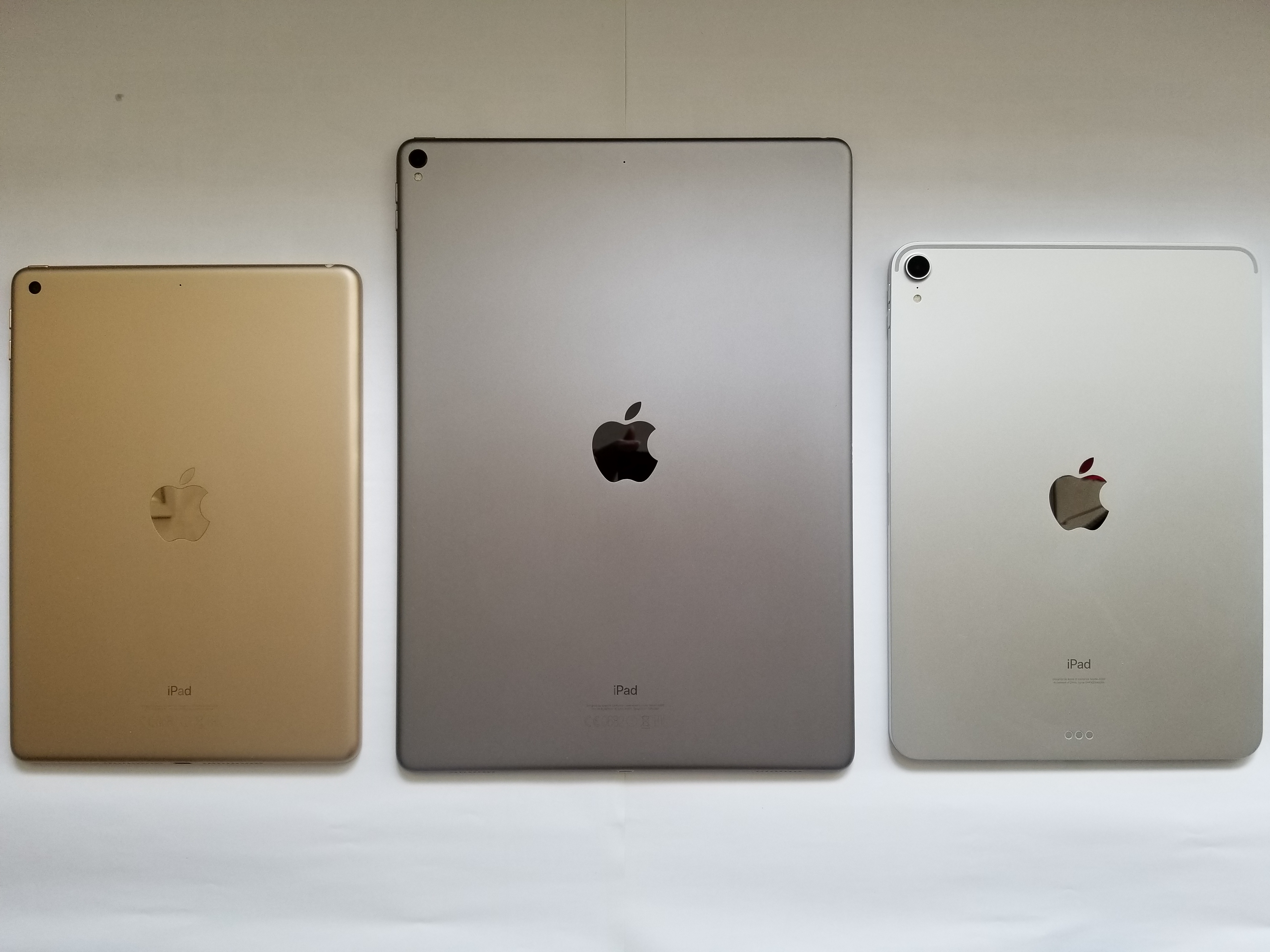 iPad 9.7″ (gold) iPad Pro 12.9″ (space gray) iPad Pro 11″ (silver)